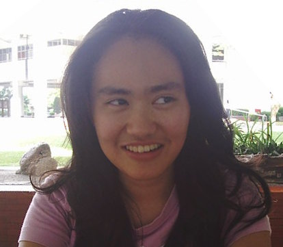 Stefani Hid